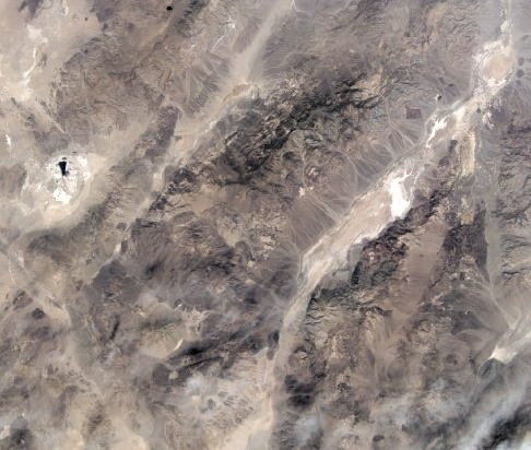 USA-CALIFORNIA/DEATH VALLEY, L. SEARLES The Death and Panamint valleys area from space. The elliptical depression to the left is the Searles Lake basin, the smaller linear valley is Panamint Valley and the larger one is Death Valley. The mountain range between Death and Panamint valleys is the Panamint Range, and the Black Mountains bound the other side of Death Valley.